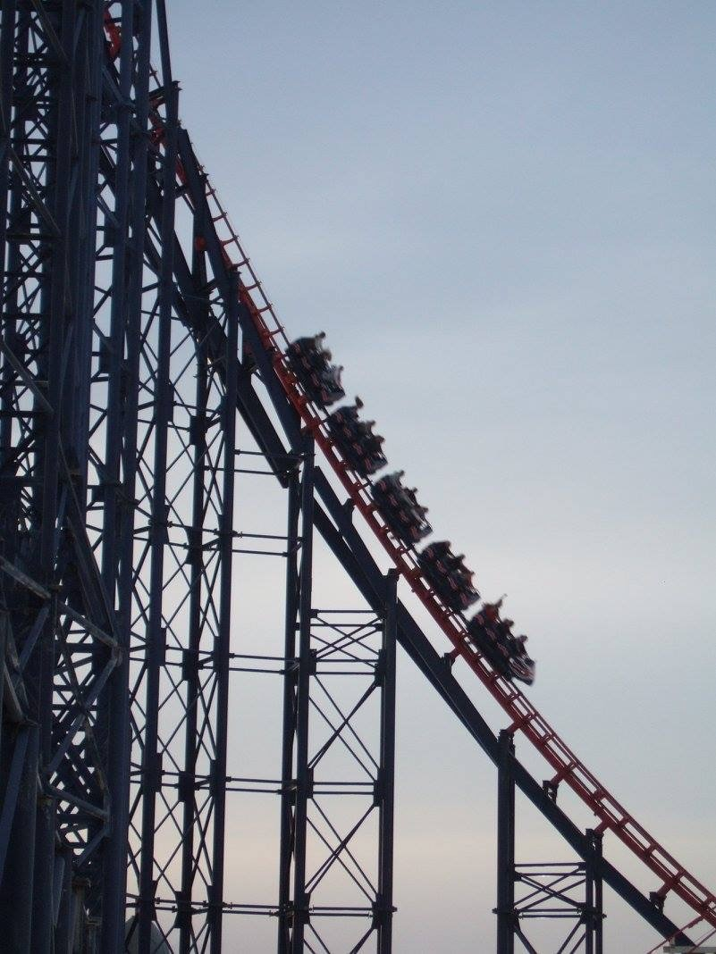 Train descending the first drop on Big One in Blackpool, reaching a top speed of 77mph.